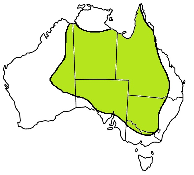 Distribution map of Suta suta